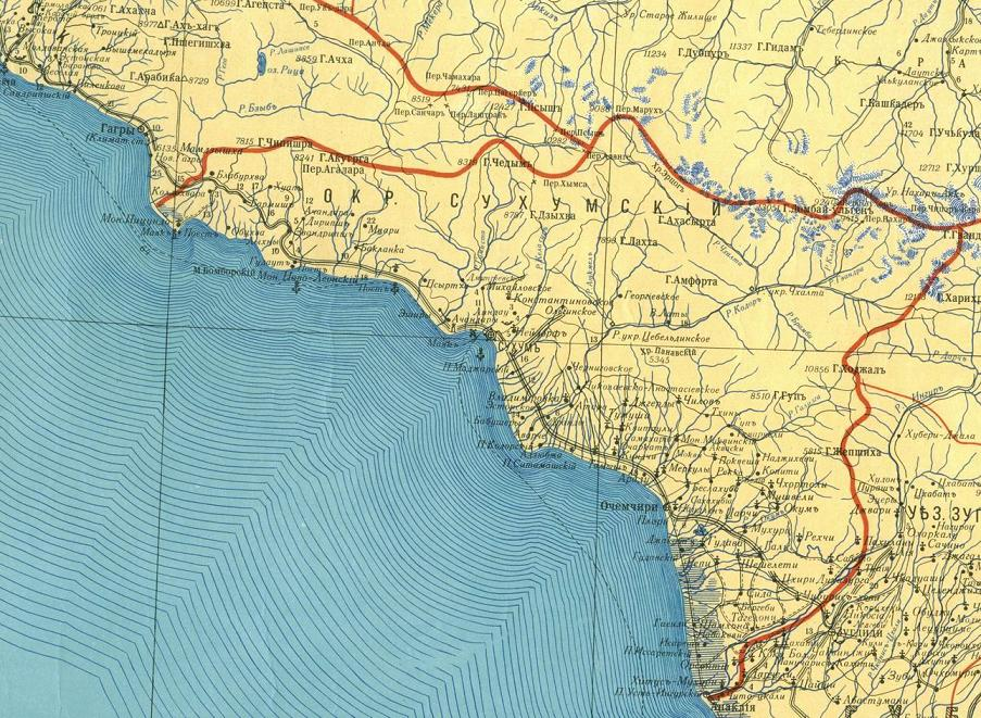 Map of Okrug Sukhumi (Ablhazia).